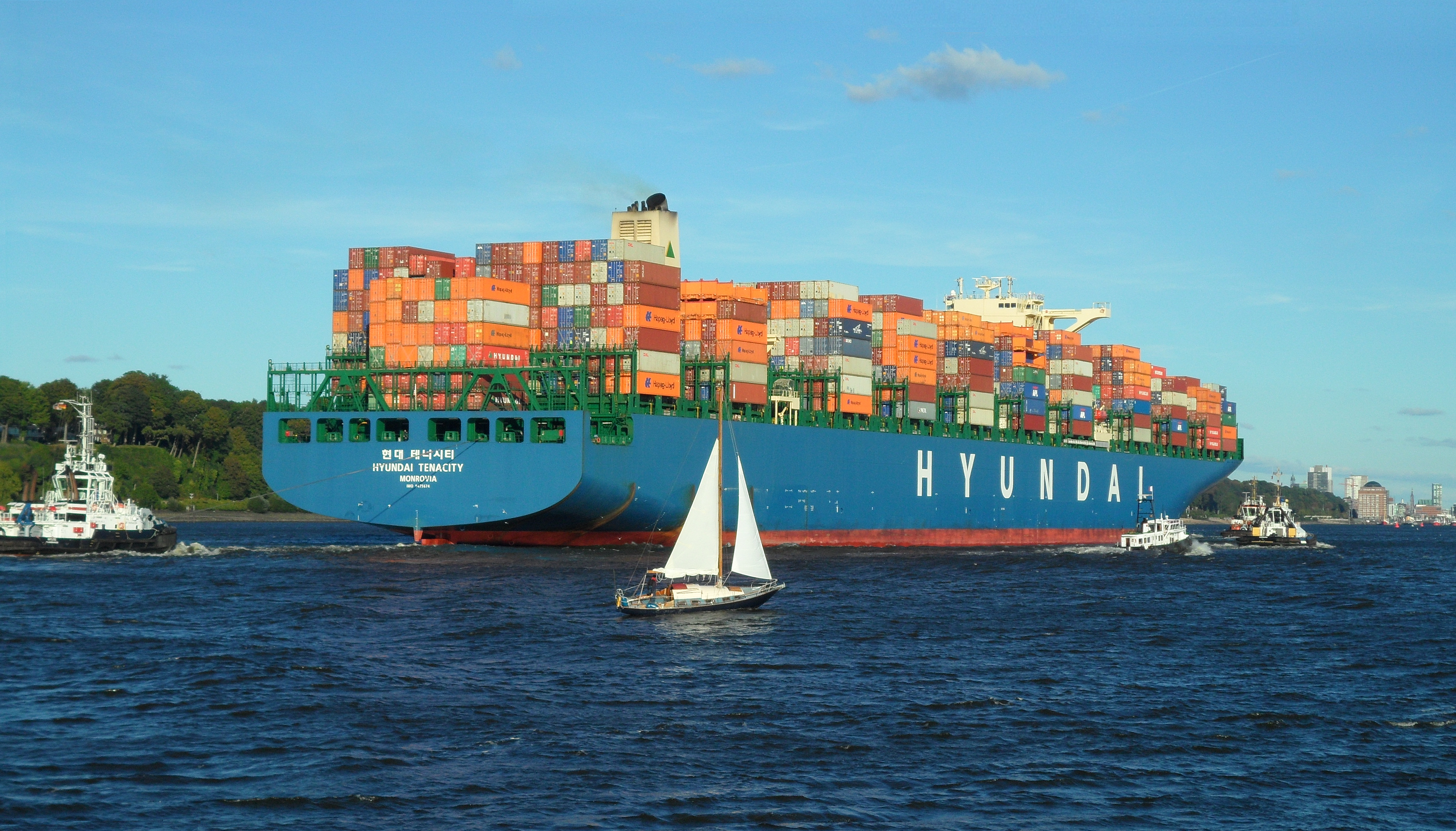 Container ship Hyundai Tenacity on the river Elbe Destination Hamburg